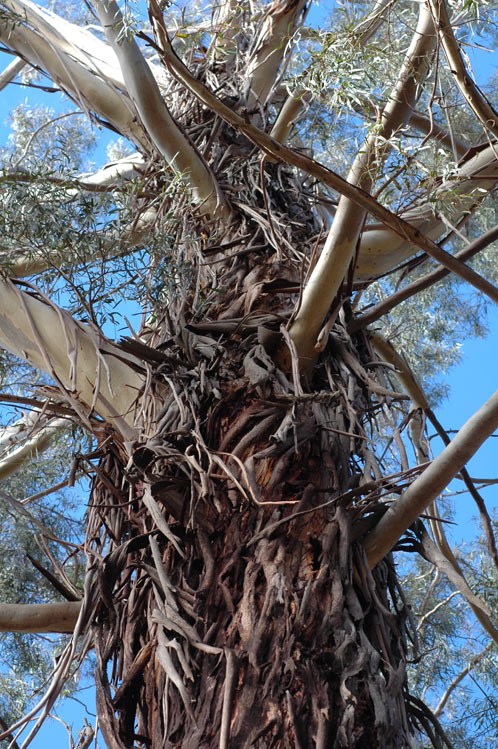 Bark on Eucalyptus badjensis in the Australian National Botanic Gardens